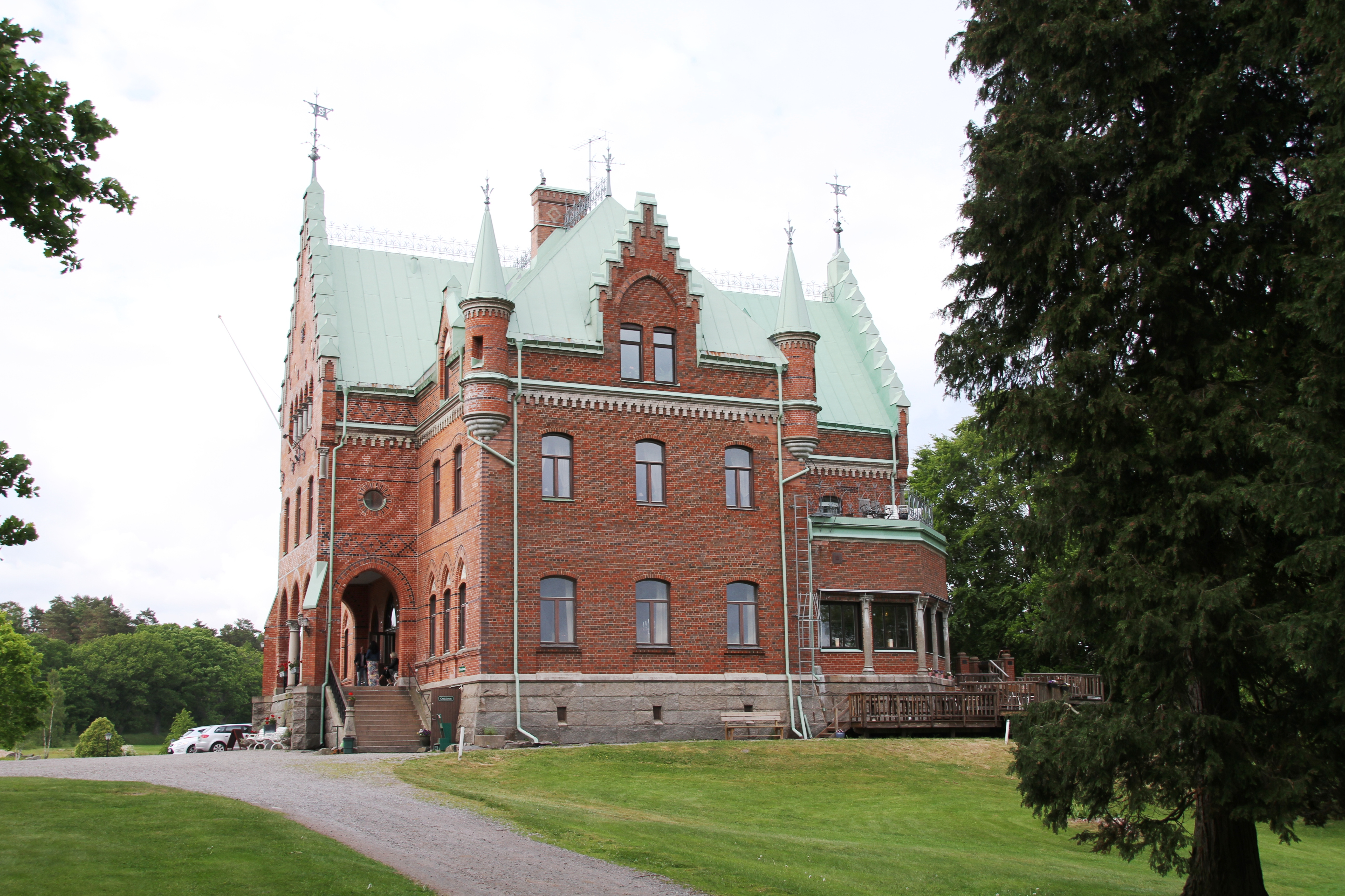 Torreby castle, built in the 1880s by the norwegian-swedish wholesale magnat Sørensen. Munkedal municipality, Bohuslen. Sweden.